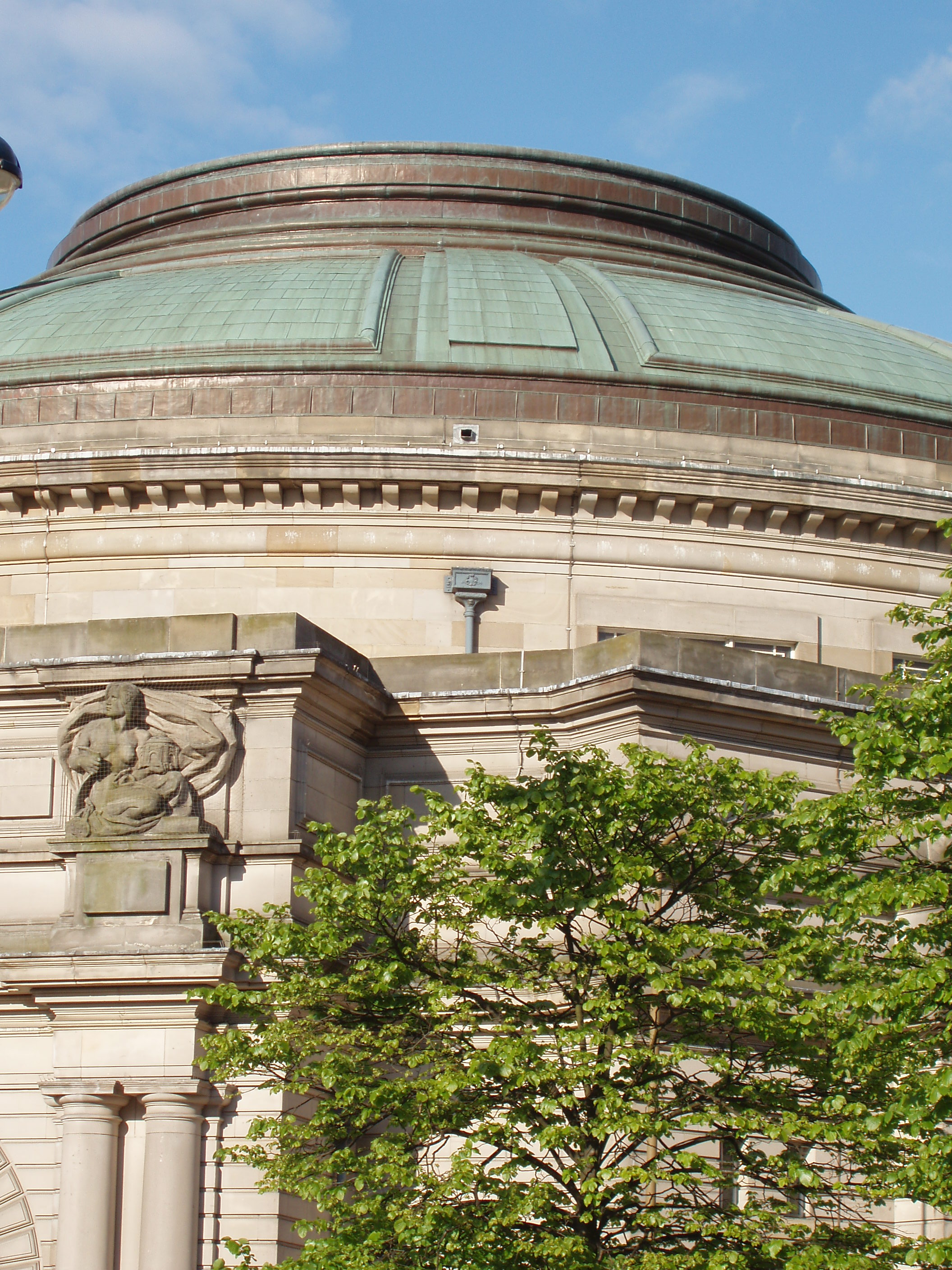 Usher Hall taken from Lothian Road